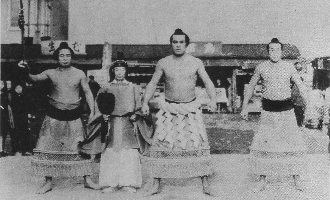 Chiyonoyama Masanobu, 1951.